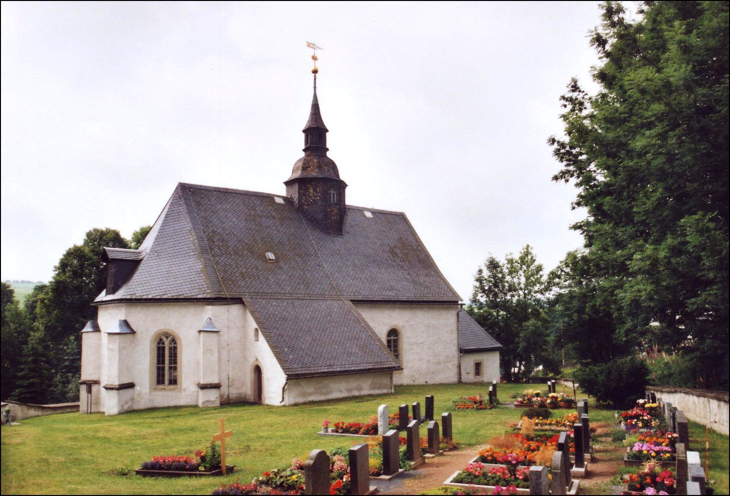 This image shows the church in Fürstenwalde in the Ore Mountains in Saxony, Germany.